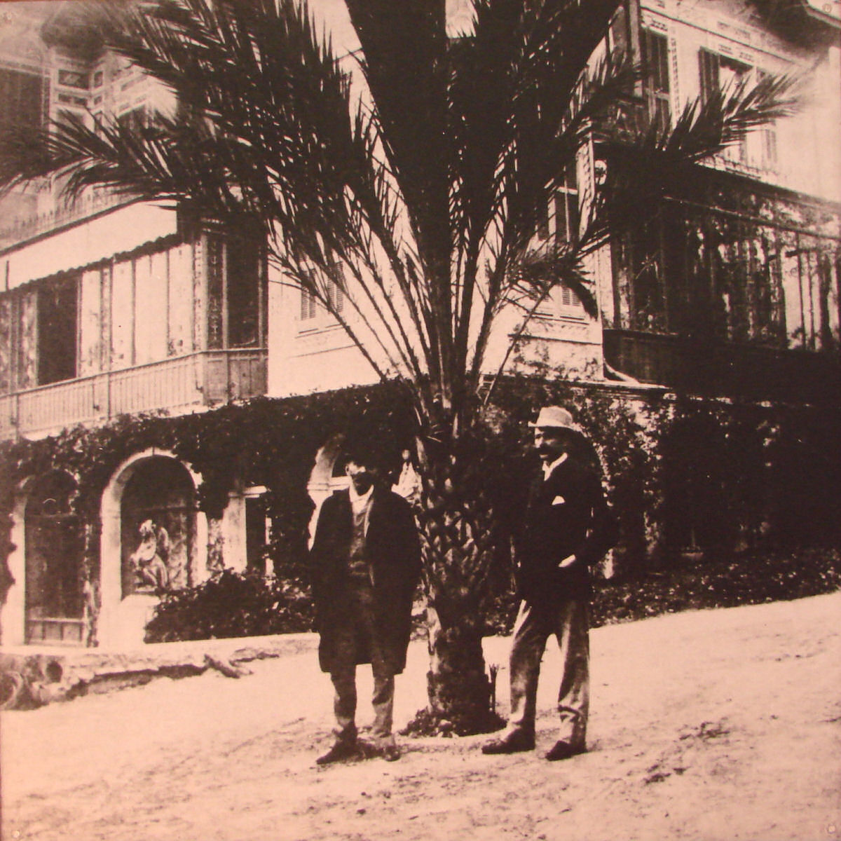 Alfred Nobel (on the left) with his collegue Robert Strehlenert at Villa Nobel in Sanremo, summer 1896